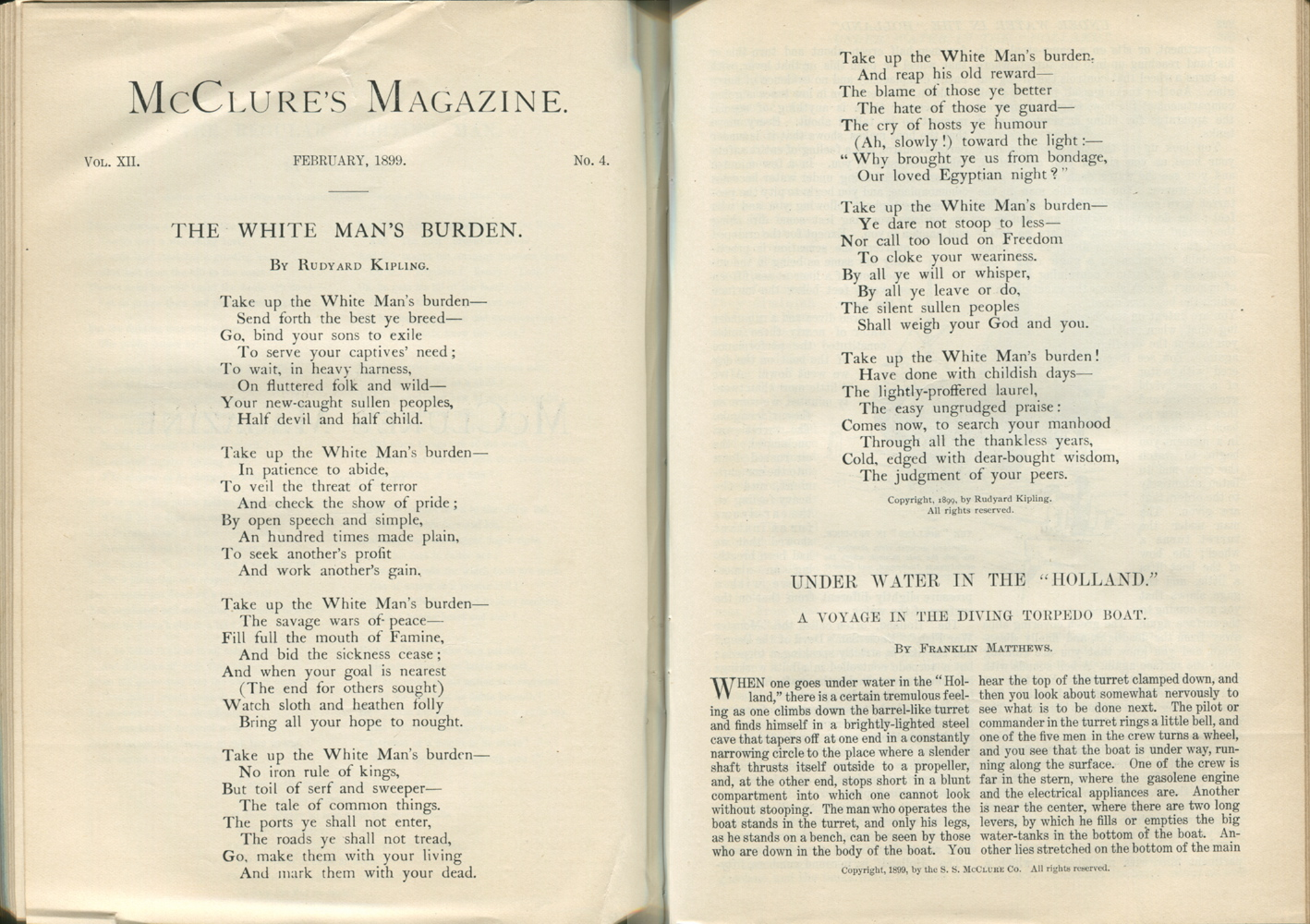 Original publication of Rudyard Kipling’s poem, “The White Man’s Burden.” McClure’s Magazine, February, 1899 (Vol. XII, No. 4)